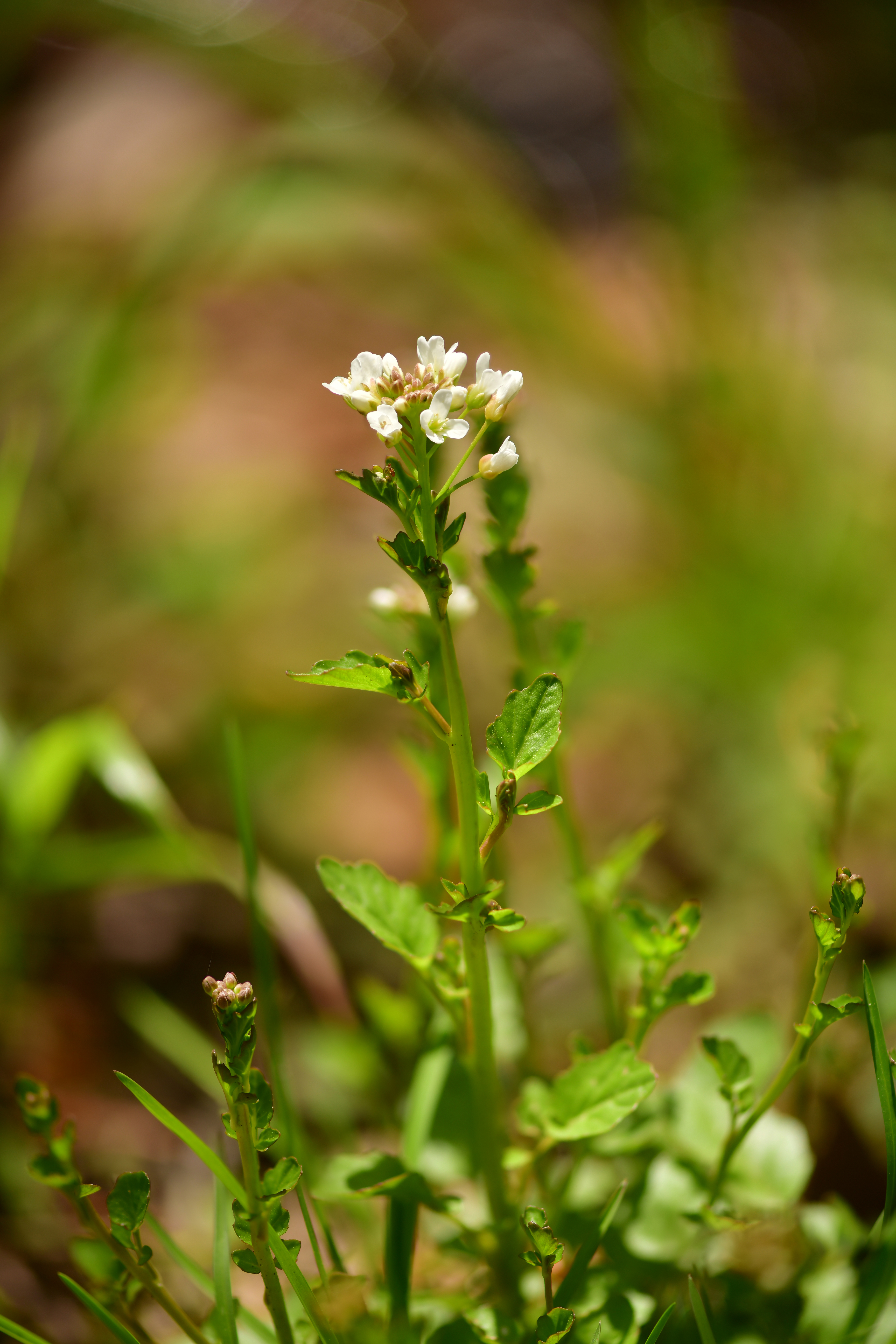 cardamine micranthera or small anthered bittercress in a small stream in Patrick County, Virginia, USA